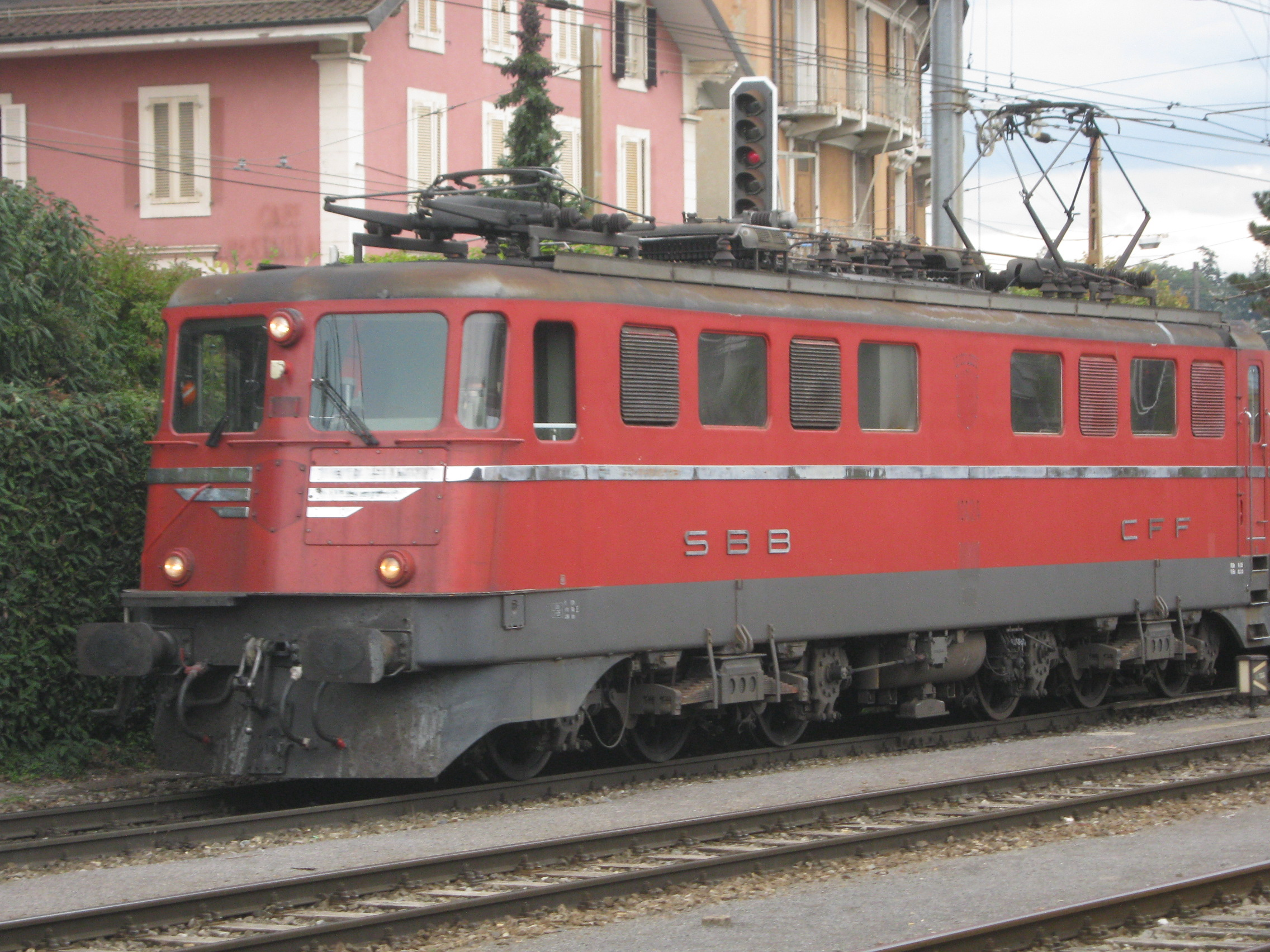 An old SBB Ae 6/6 locomotive in cargo operations, in Renens.